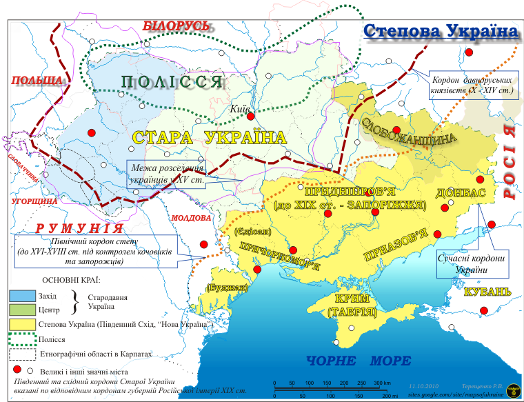 steppe Ukraine